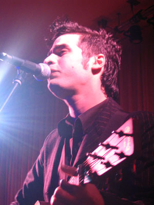 Aviv Geffen, performing live with Blackfield on March 10, 2005, at the Canal Room in New York, NY, USA.